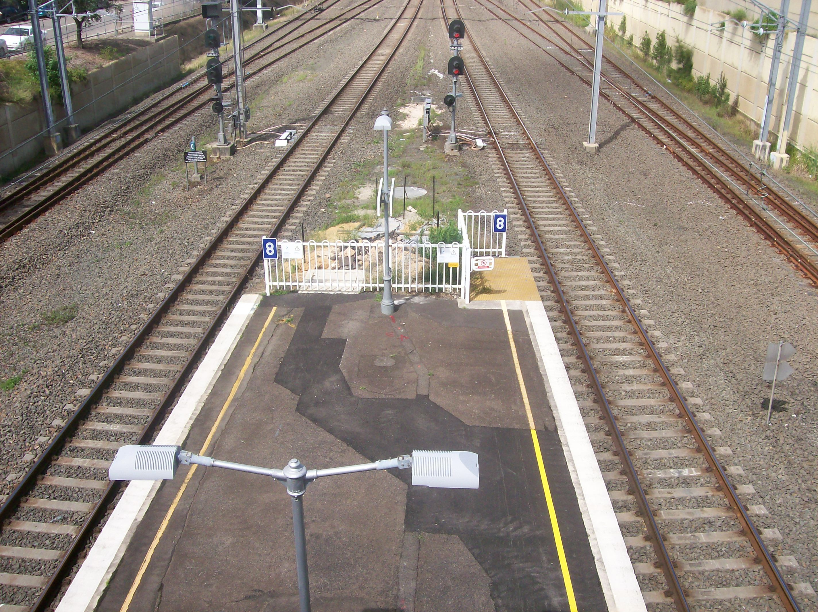 Turella railway station city end